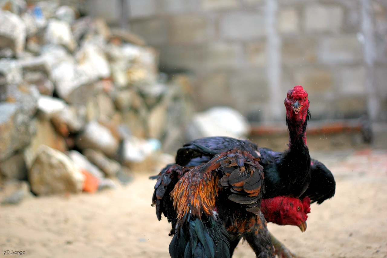 Cock fighting in Vietnam.